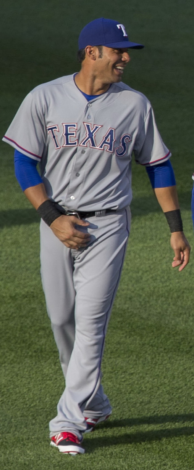 Carlos Peña